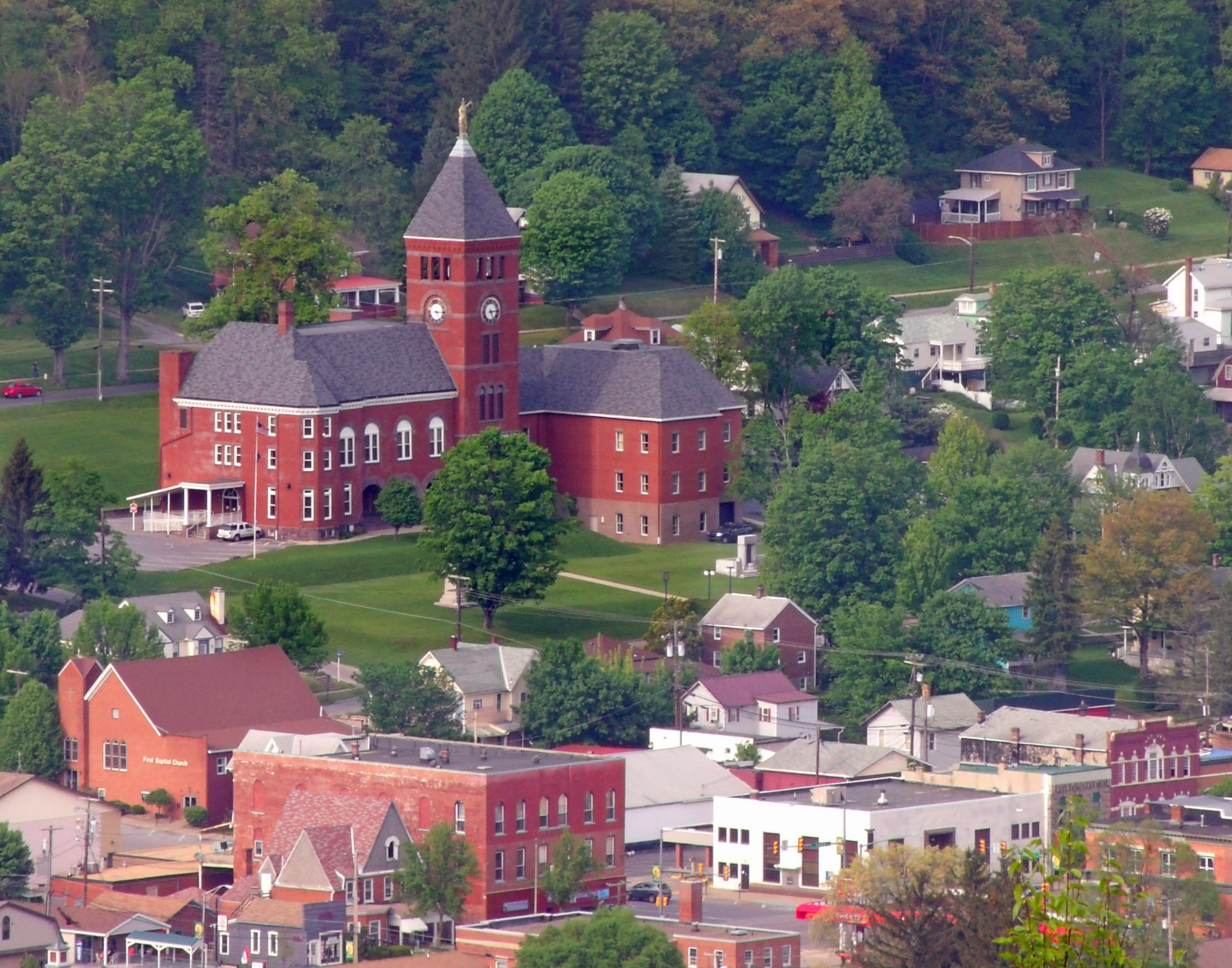 Zoomed-in view of Emporium, the seat of Cameron County, Pennsylvania, USA from the Whittimore Road vista